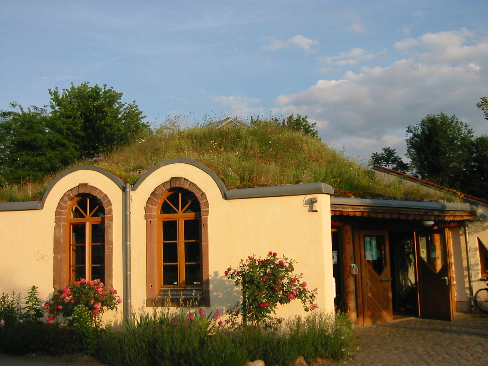 Entry of the "Ökostation" (Ecostation) in Freiburg, Germany